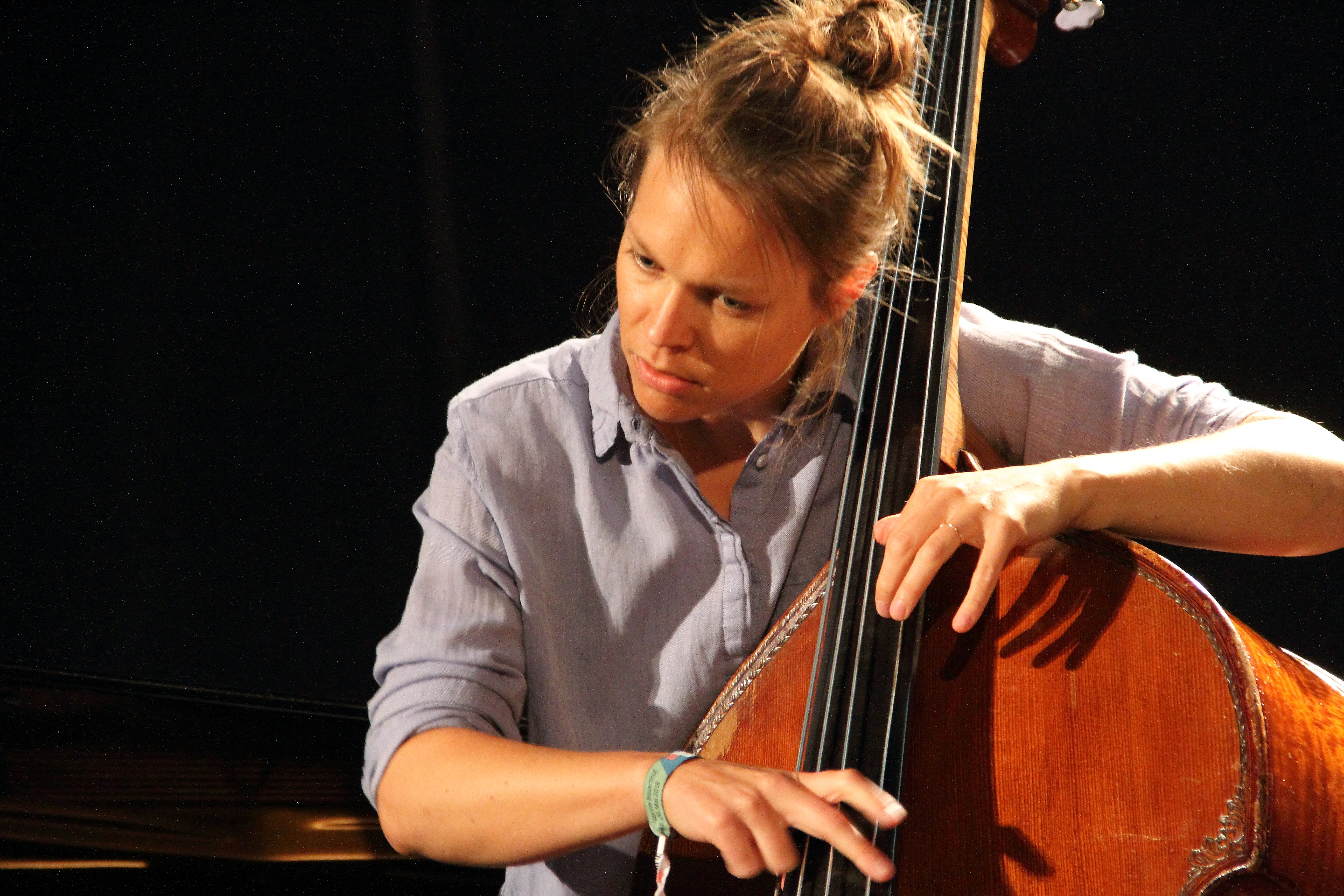 Hendrika Entzian Quartet at INNtöne Jazzfestival 2018.